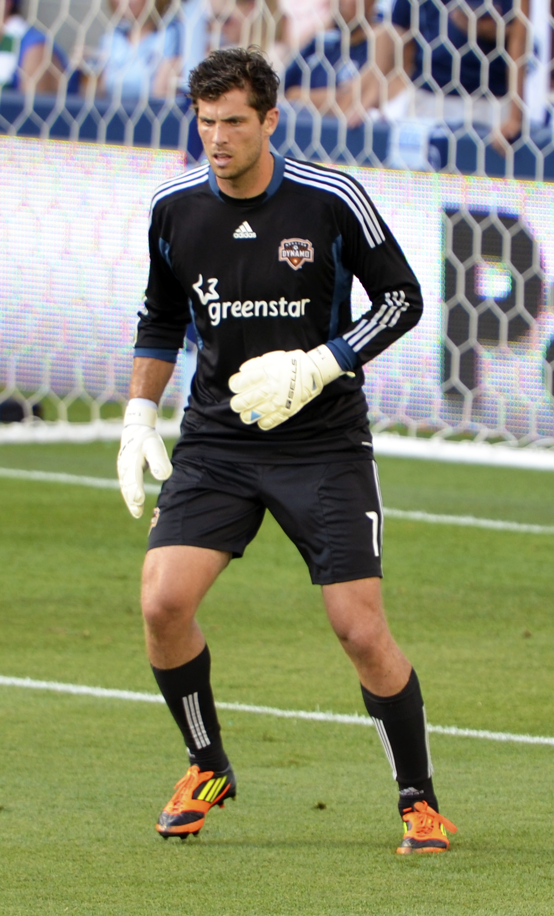 Tally Hall, goalkeeper for the Houston Dynamo's warming up prior to the Sporting KC game at Livestrong Sporting Park, in Kansas City, Kansas on July 7th, 2012.